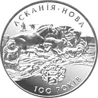 Coin of Ukraine